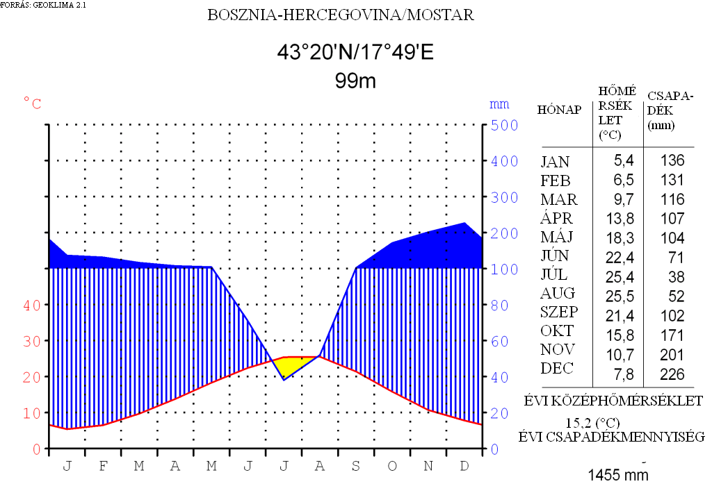 Klimadiagramm nach Walter und Lieth, metrisch, °Celsius und Millimeter, erstellt mit Geoklima 2.1 climate chart in the format by Walter and Lieth, metric, °Celsisus and millimeters, made with Geoklima 2.1 hu: Mostar éghajlata